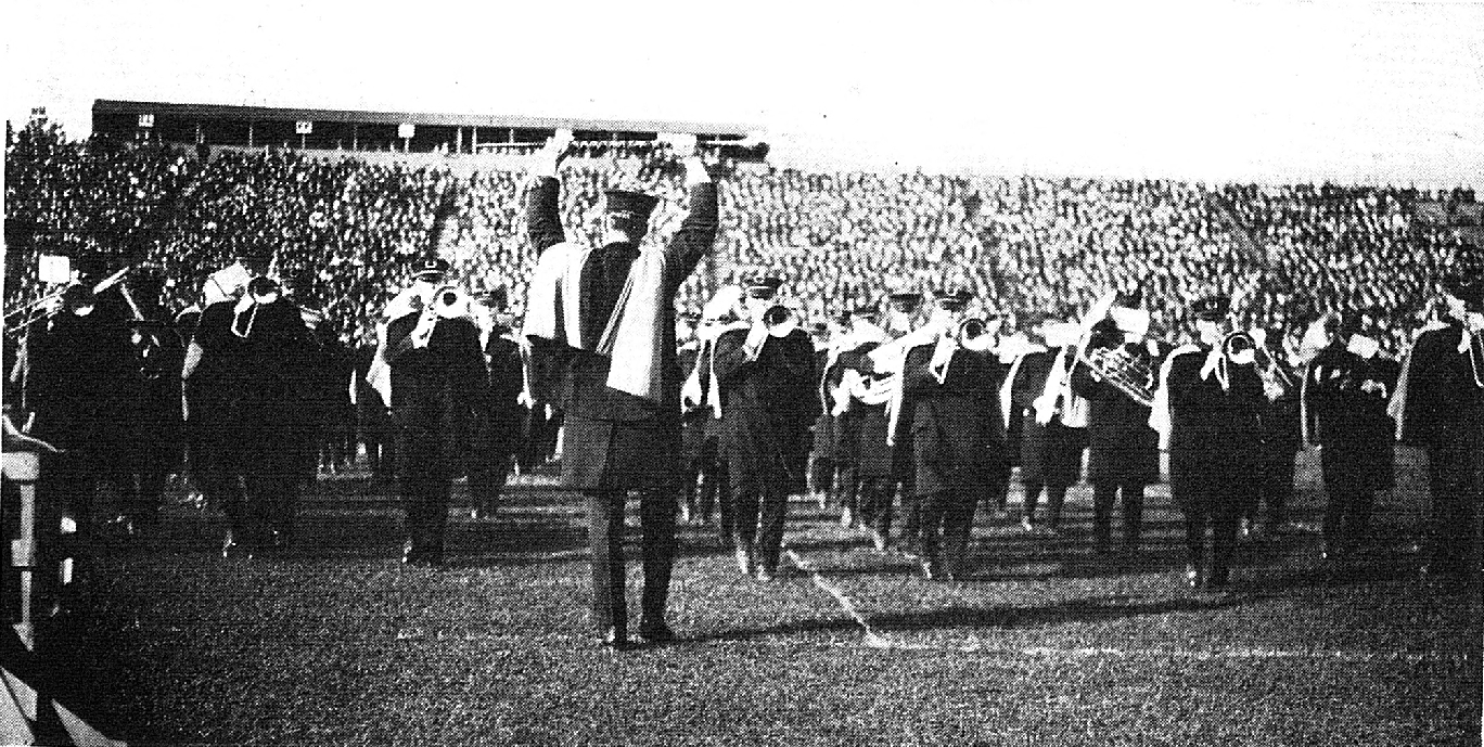 Photograph of Michigan Marching Band, performing the opening bars of the "Yellow and Blue" between halves of the Michigan-Chicago game in 1920